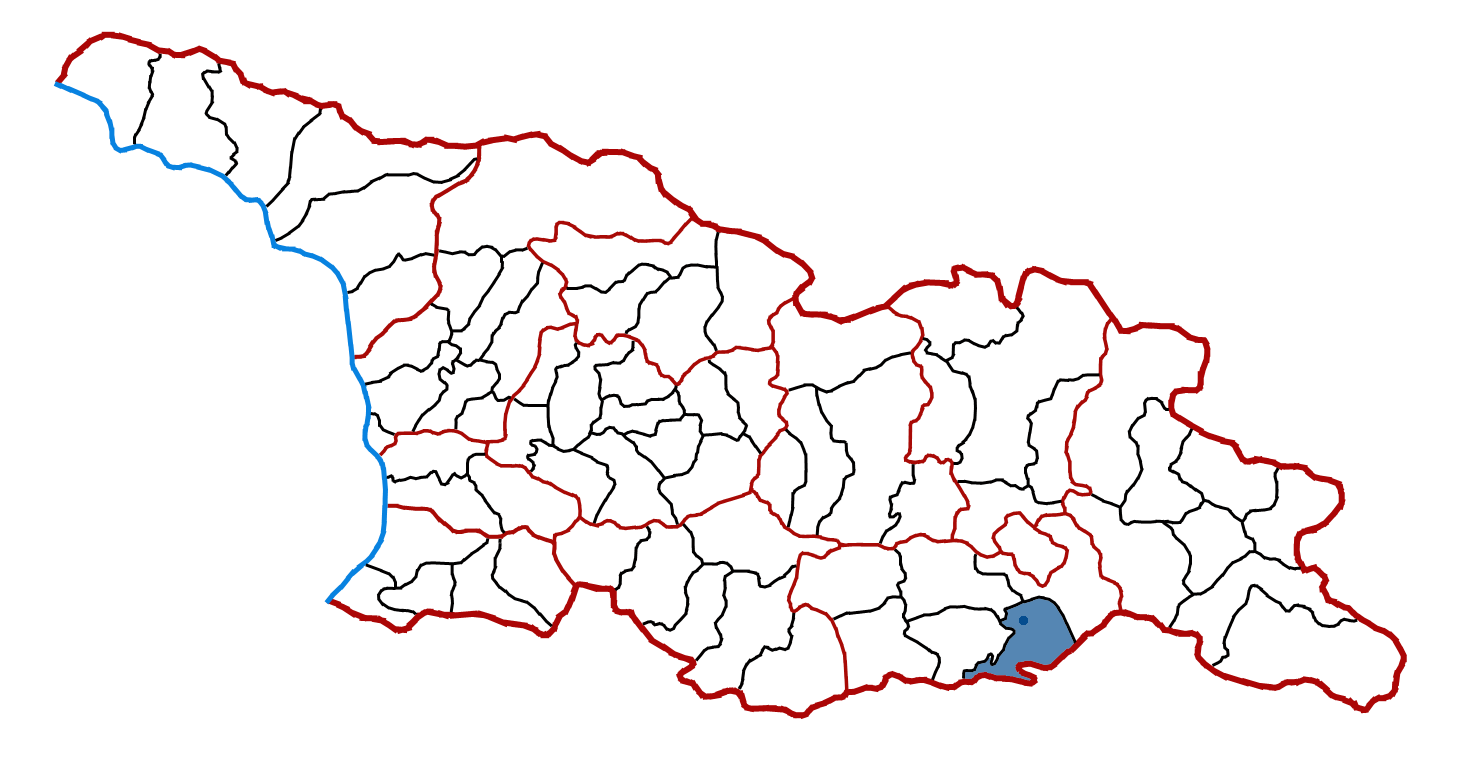 Location of Marneuli district in Georgia